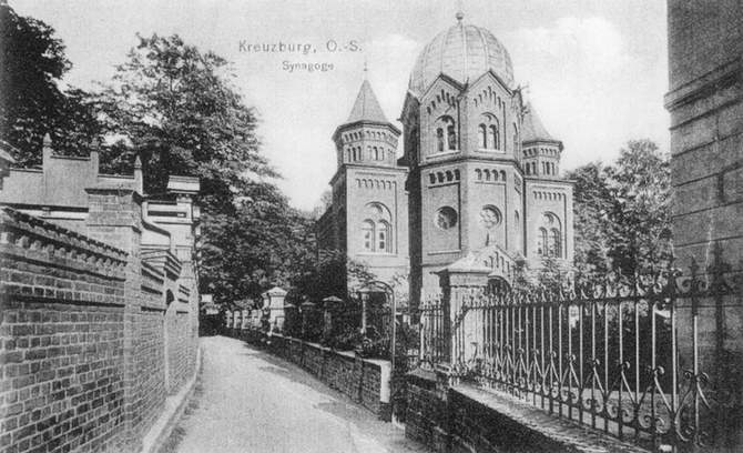 Synagogue in Kluczbork